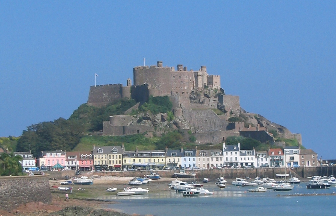 Mt Orgueil from south, in Jersey